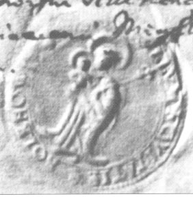 The Seal of Bolekhiv Town (17th c.)